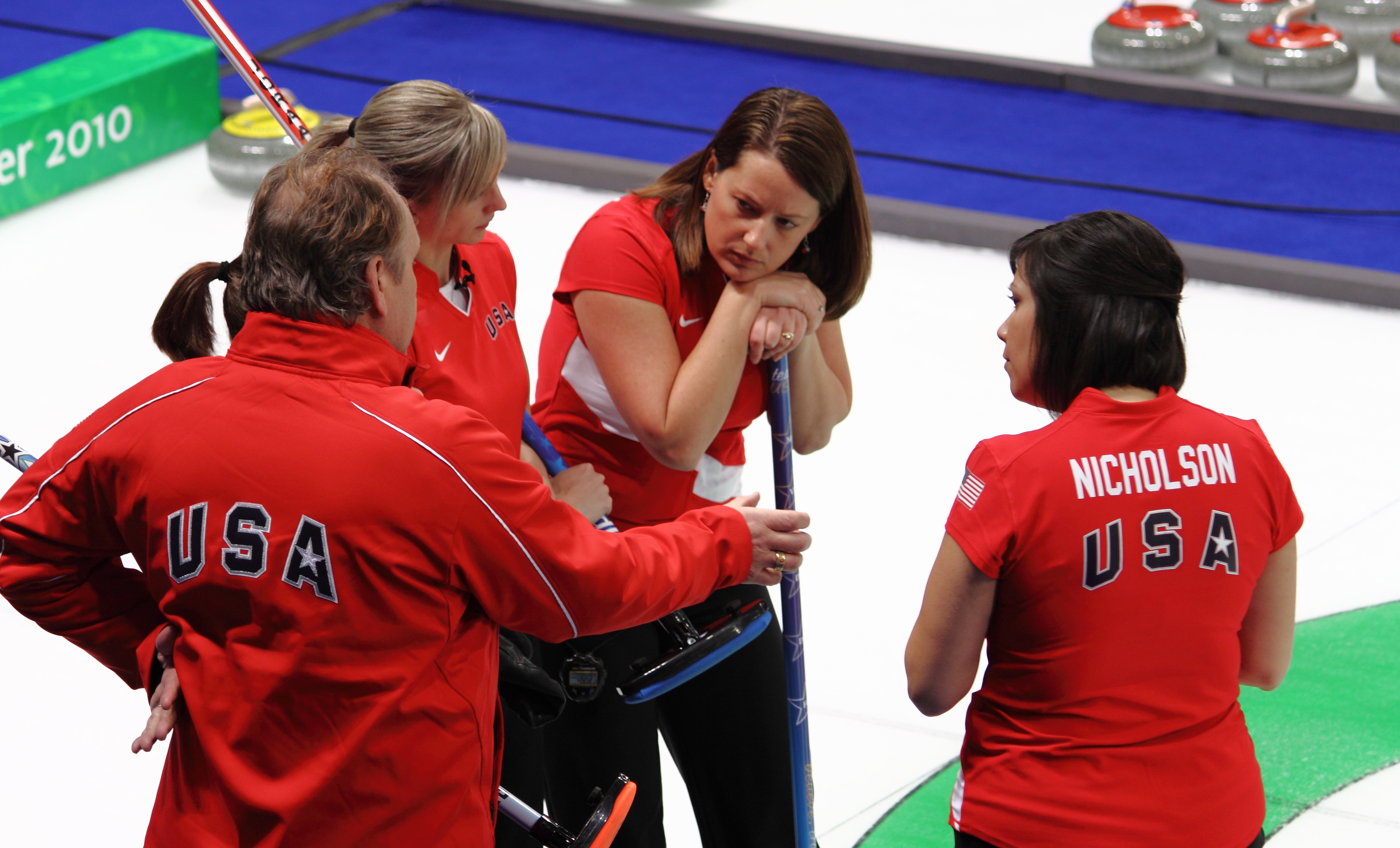 2010 Vancouver Olympic Games - Women's Curling - Preliminary from Vancouver Olympic Centre